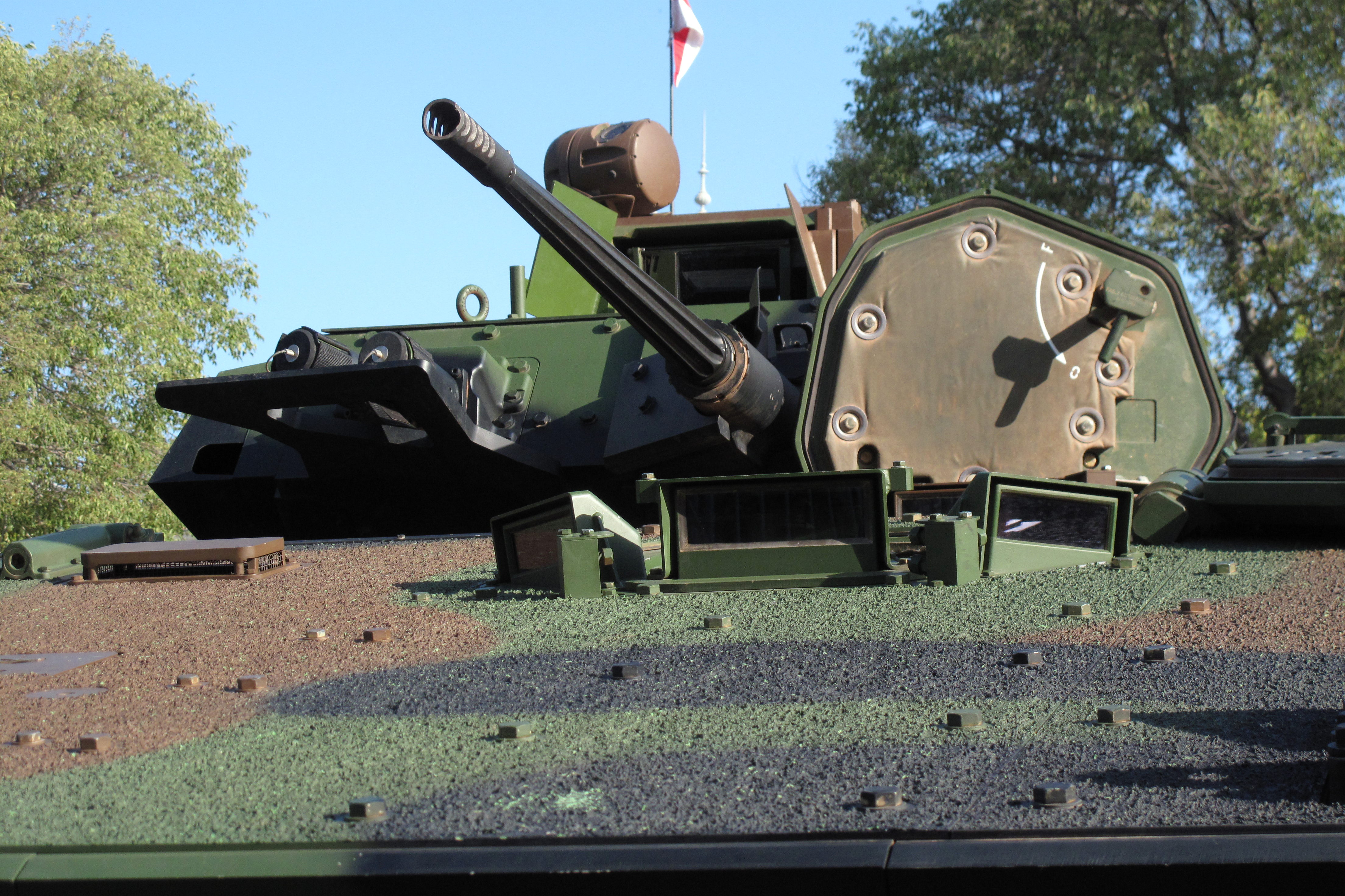 Véhicule blindé de combat d'infanterie of the 1er régiment de chasseurs d'Afrique during the military parade of 14 July 2012 in Marseille. The making of this document was supported by Wikimédia France. (Submit your project!)